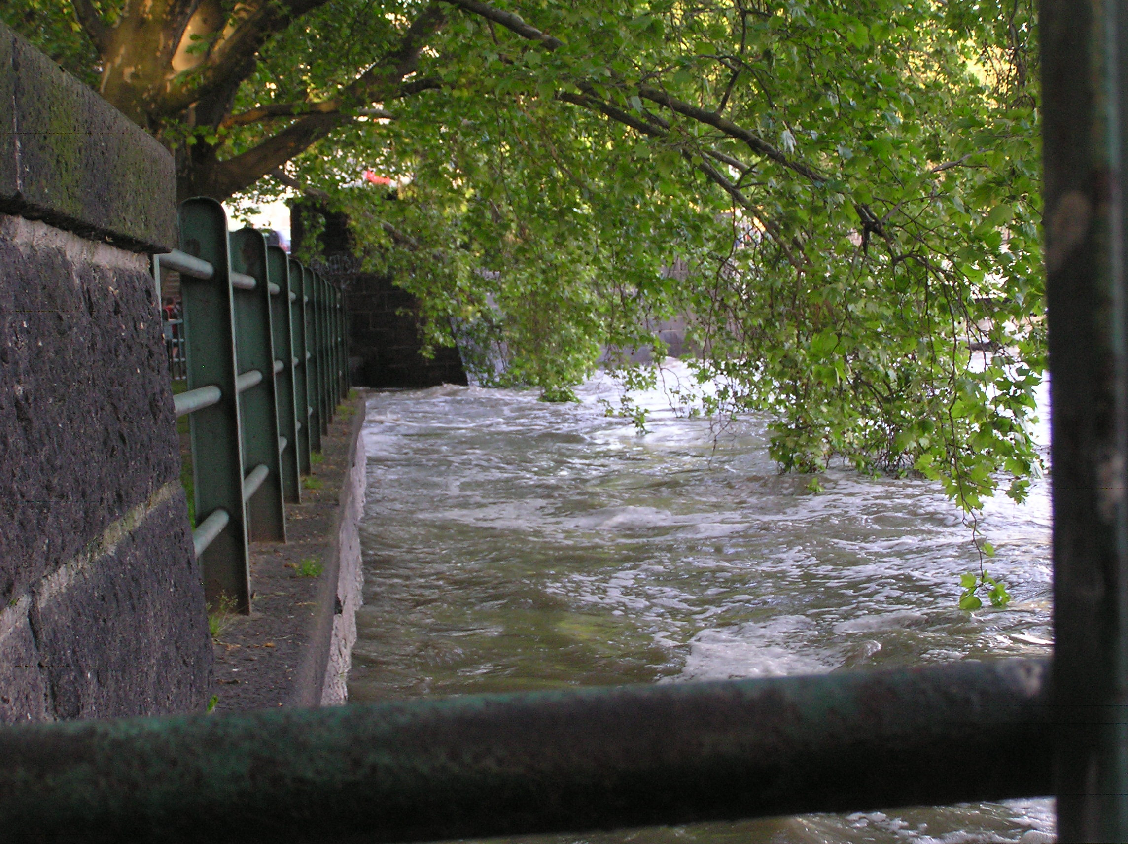 Wrocław, weir of northern hydroelectric plant in Wrocław, Northern Pomorski Bridge